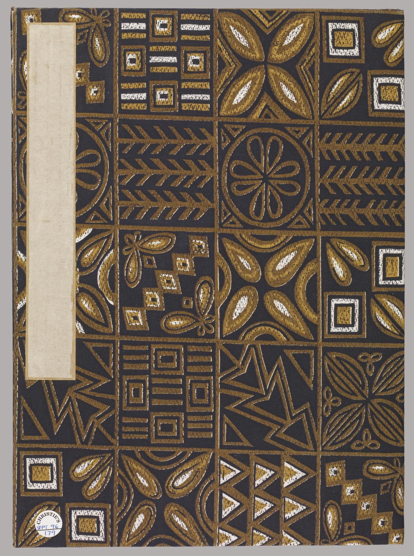 Now detached, these four leaves were originally joined together. They were to be looked at one by one, like pages in a book. A leading artist of Anhui province, Zha Shibiao [Cha Shih-piao] was an old man when he painted these leaves. For him, as for other Chinese painters, nature was a refuge from political strife.